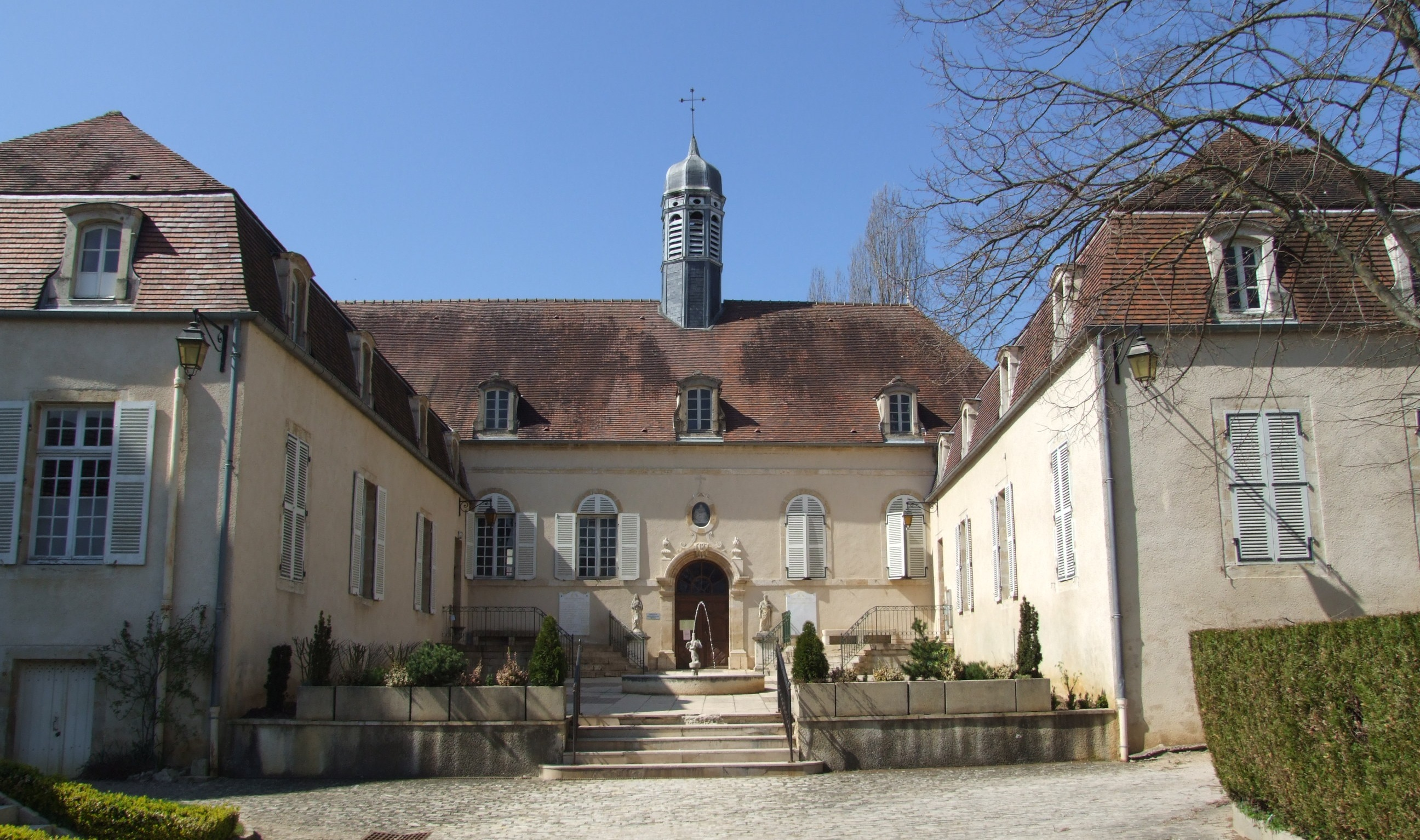 Saint-Nicolas Hospital, Vitteaux, Burgundy, FRANCE